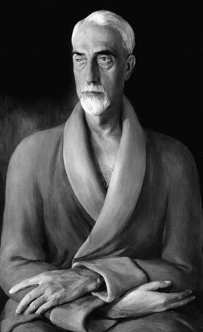 Portrait of Ernest Fourneau, father of the artist. Oil on canvas, 1938 (Private collection).